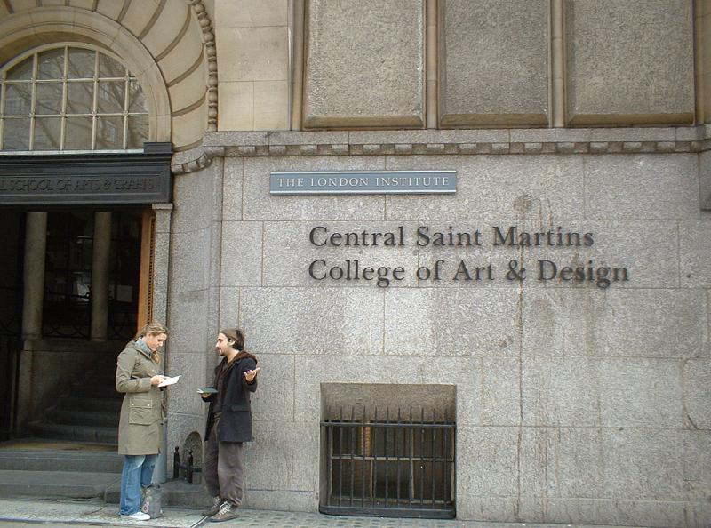 CentralStMartins taken by C Ford March 04.